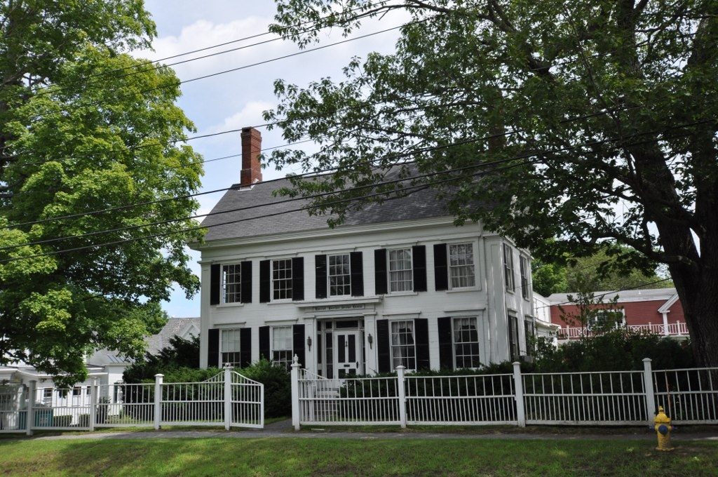 Harriet Beecher Stowe House, Brunswick, Maine.